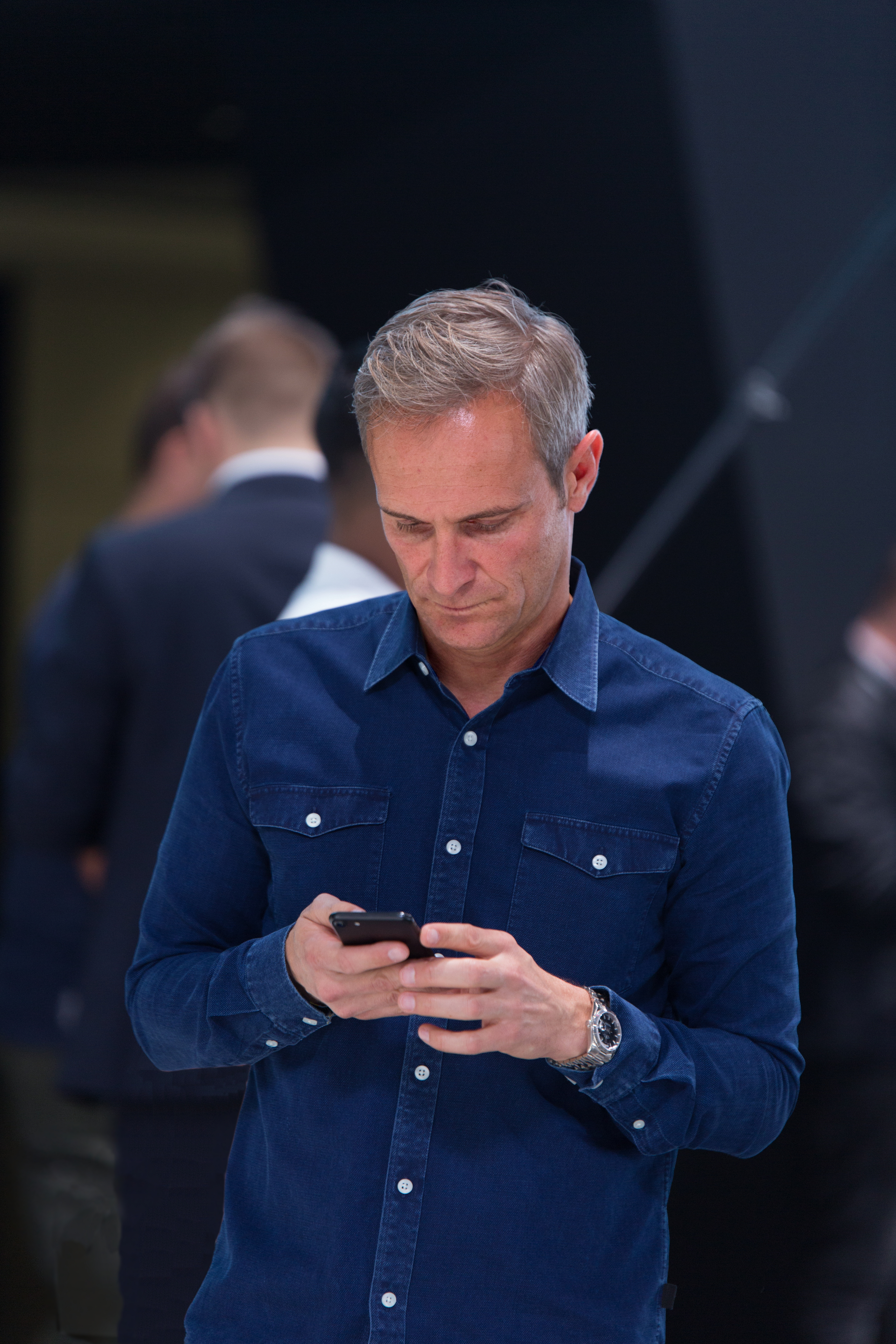 Matthias Malmedie at IAA 2017